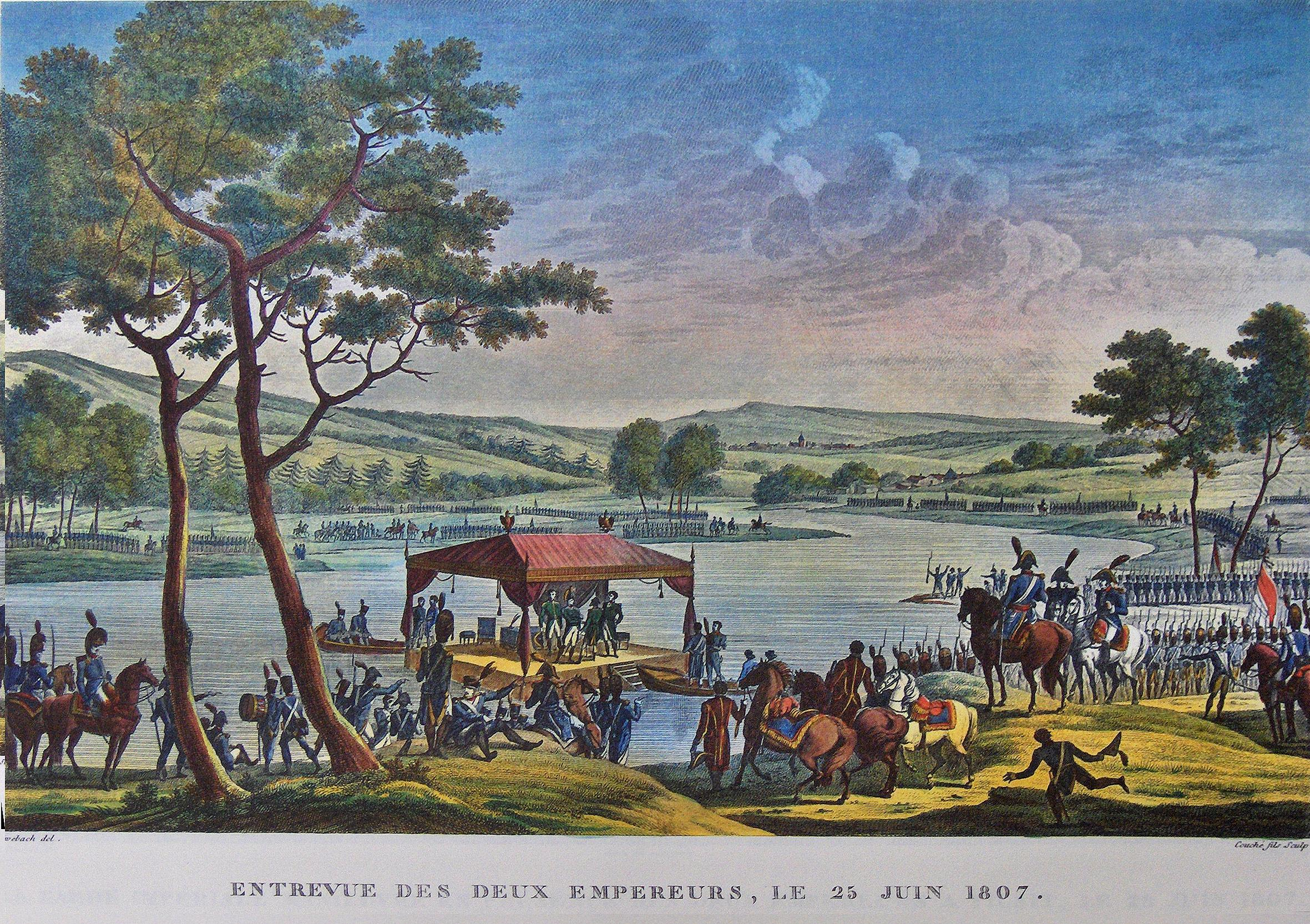 "Meeting of the two emperors at Tilsit on 25 June 1807" colored litho by Antoine Charles Horace Vernet (called Carle Vernet)(1758 - 1836) and Jacques François Swebach (1769-1823)